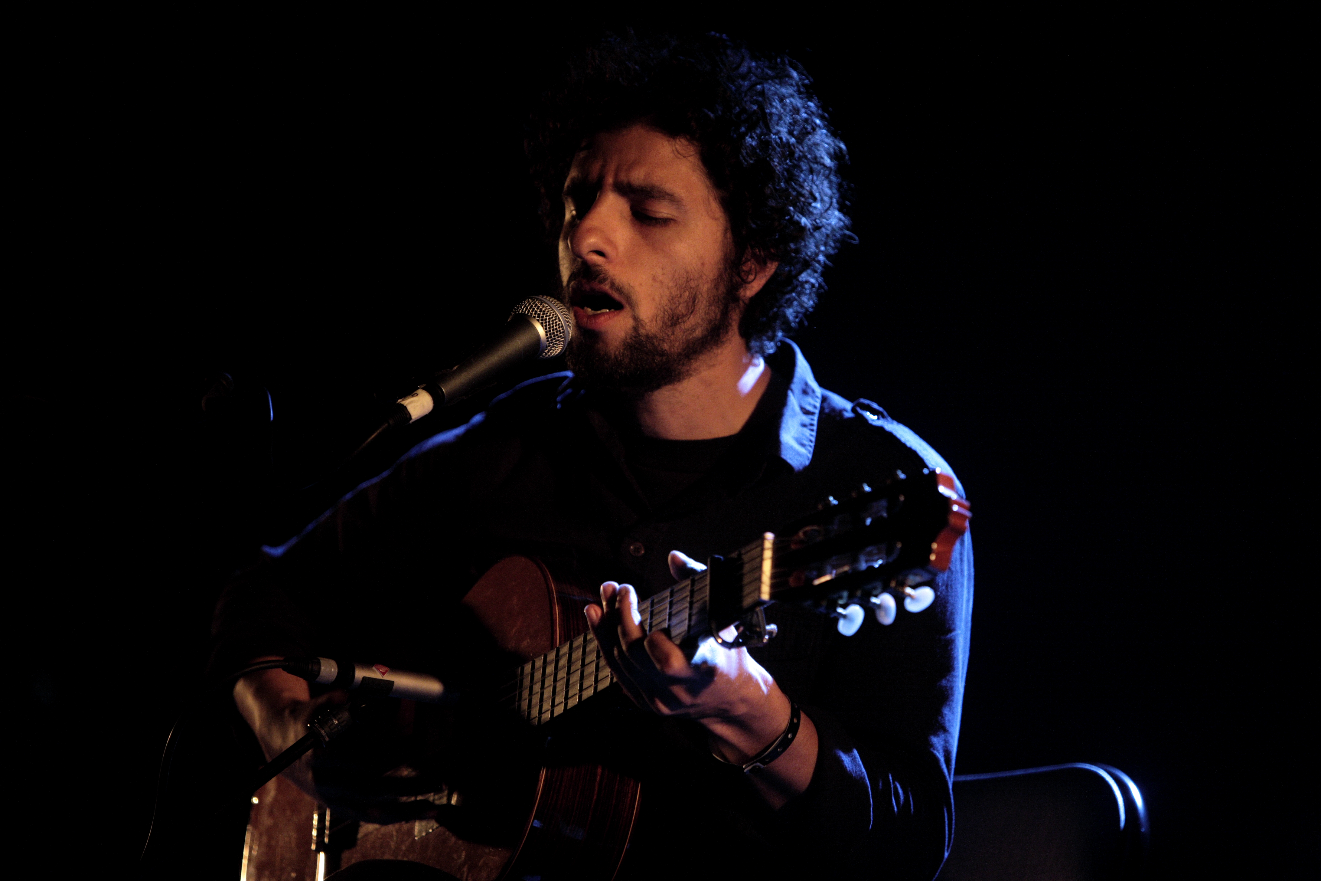 José Gonzales at La Route du Rock 2008